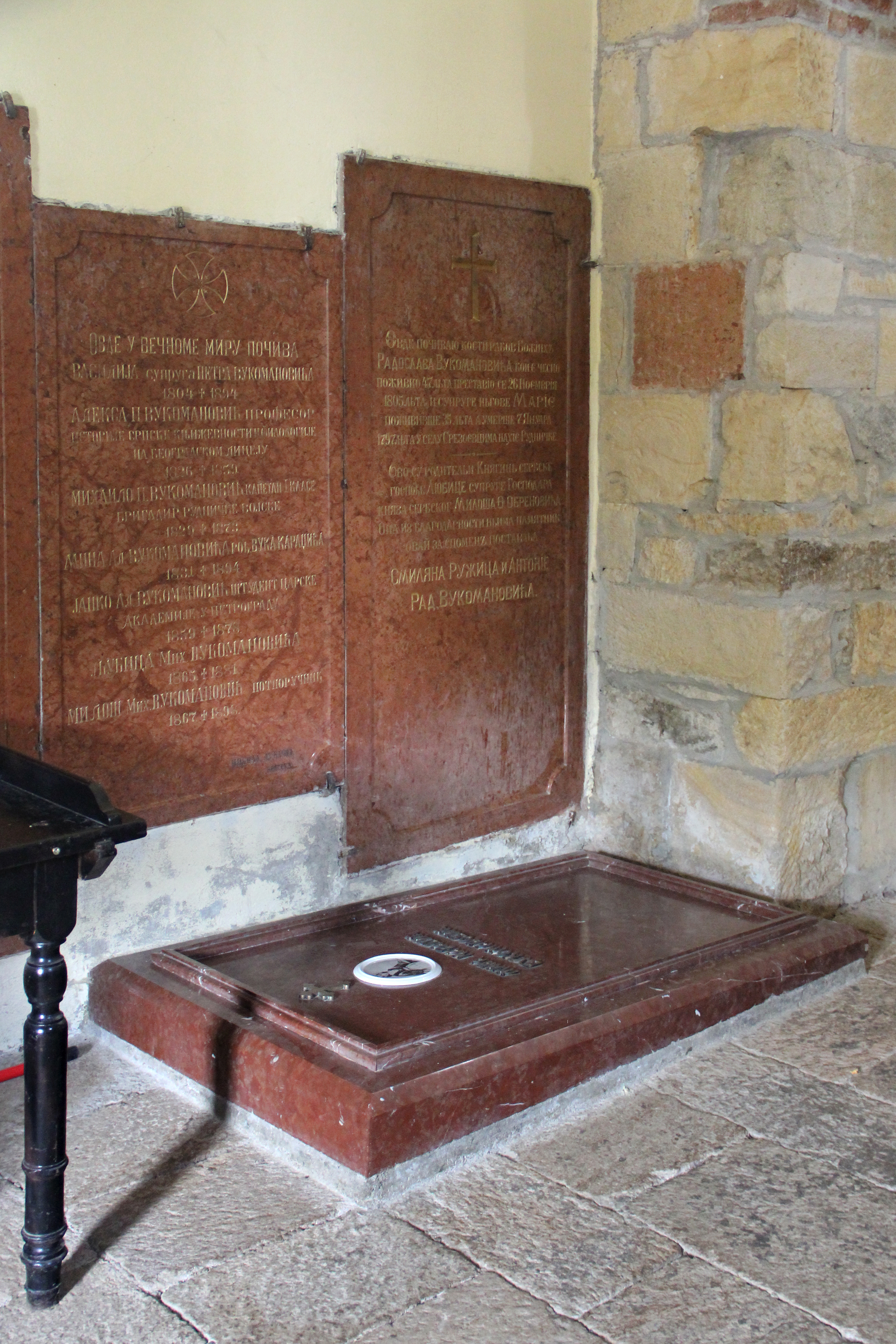 Tomb of Wilhelmina (Mina) Karadzic-Vukomanovic (Vienna, June 30 / July 12, 1828 - Vienna, 12 June 1894), painter and writer, daughter of Vuk Stefanovic Karadzic.